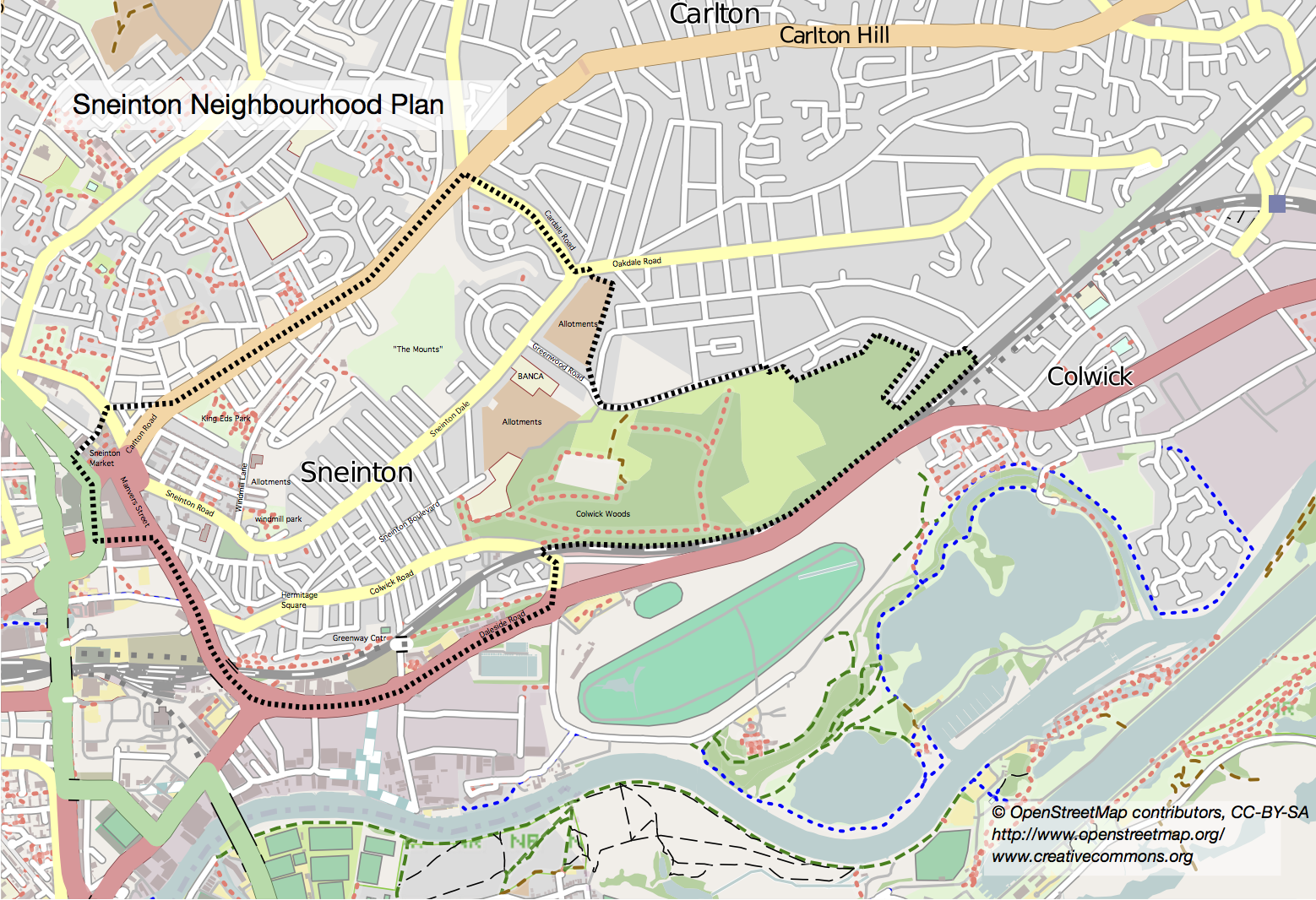 Sneinton (pronounced "Snenton") is a village and suburb of Nottingham, England. The area is bounded by Nottingham City Centre to the west, Bakersfield to the north, Colwick to the east, and the River Trent to the south. Sneinton now lies within the unitary authority of Nottingham, having been part of Nottinghamshire until 1877. Sneinton has existed as a village since at least 1086, but remained relatively unchanged up until the industrial era, when the population dramatically expanded. Further social change in the post-war period left Sneinton with a multicultural character. Sneinton residents of note include William Booth, founder of The Salvation Army, and mathematician George Green, who worked Green's Mill at the top of Sneinton Hill.